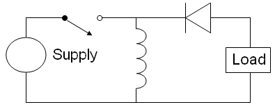 This is a modification of File:boost_circuit.png that I created.